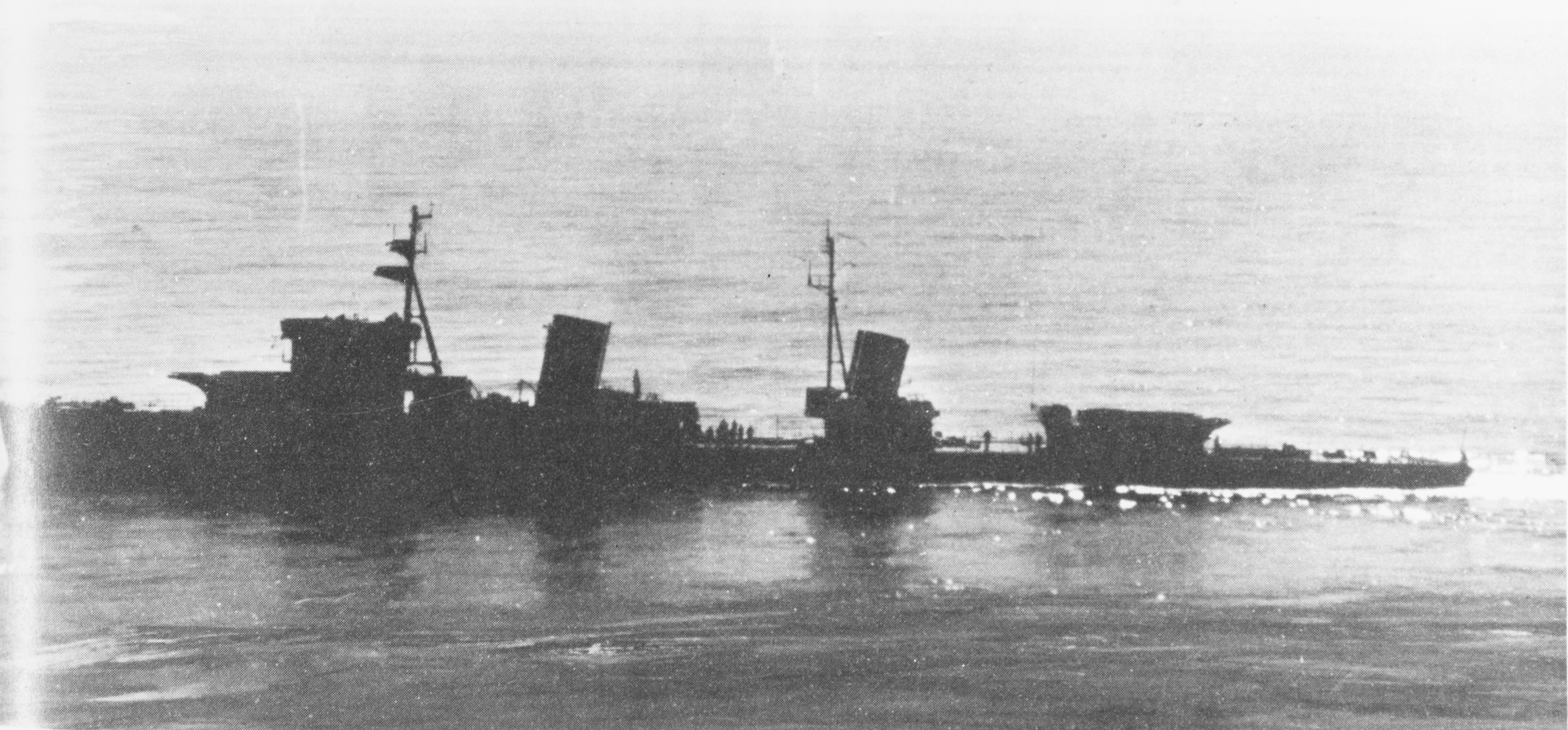 A disarmed Soviet destroyer, either MINSK (1935-circa 1965) or TBILISI (1938-circa 1965)